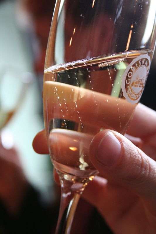 Image of a glass of sparkling wine from the Slovenian wine region of Goriška-Brda.